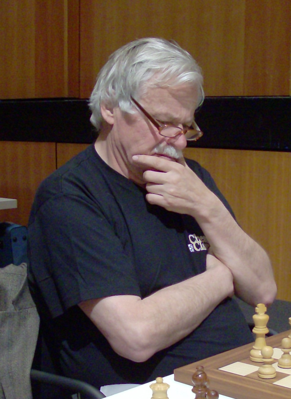 Vlastimil Hort, chess grandmaster